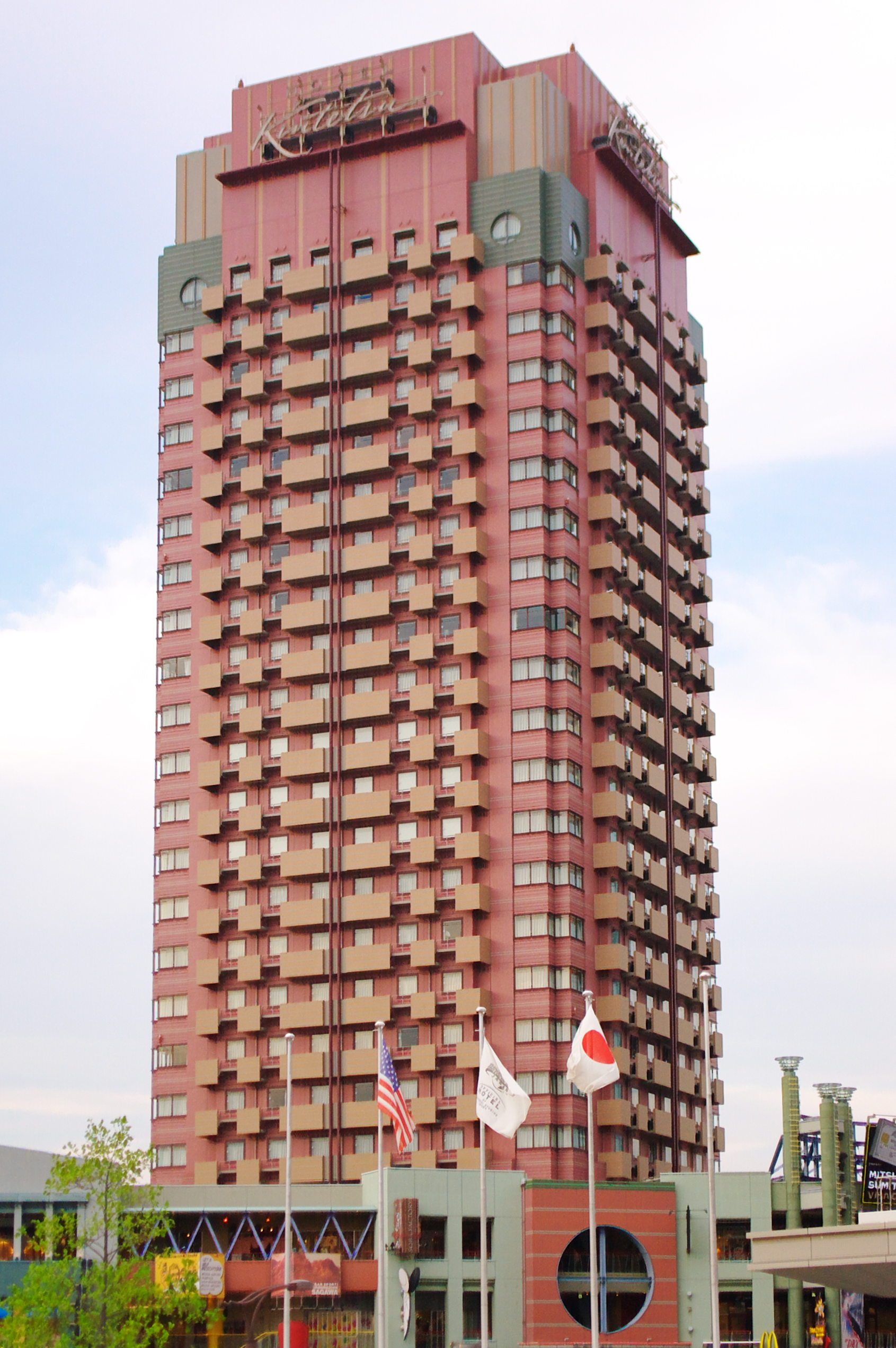 Photograph of Hotel Kintetsu Universal City in Konohana-ku, Osaka, Osaka Prefecture, Japan.